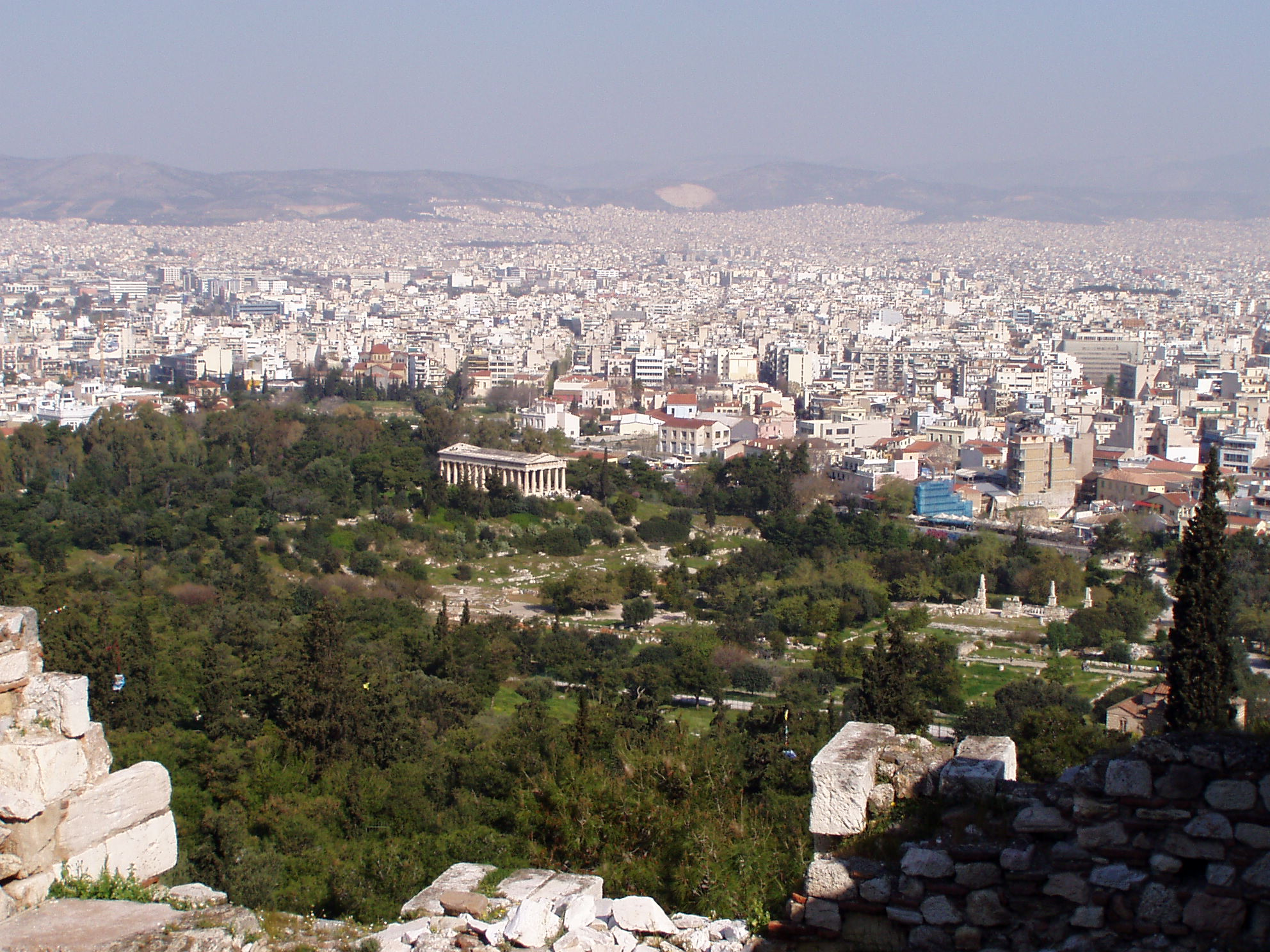 This is the Greek Agora of Athens.